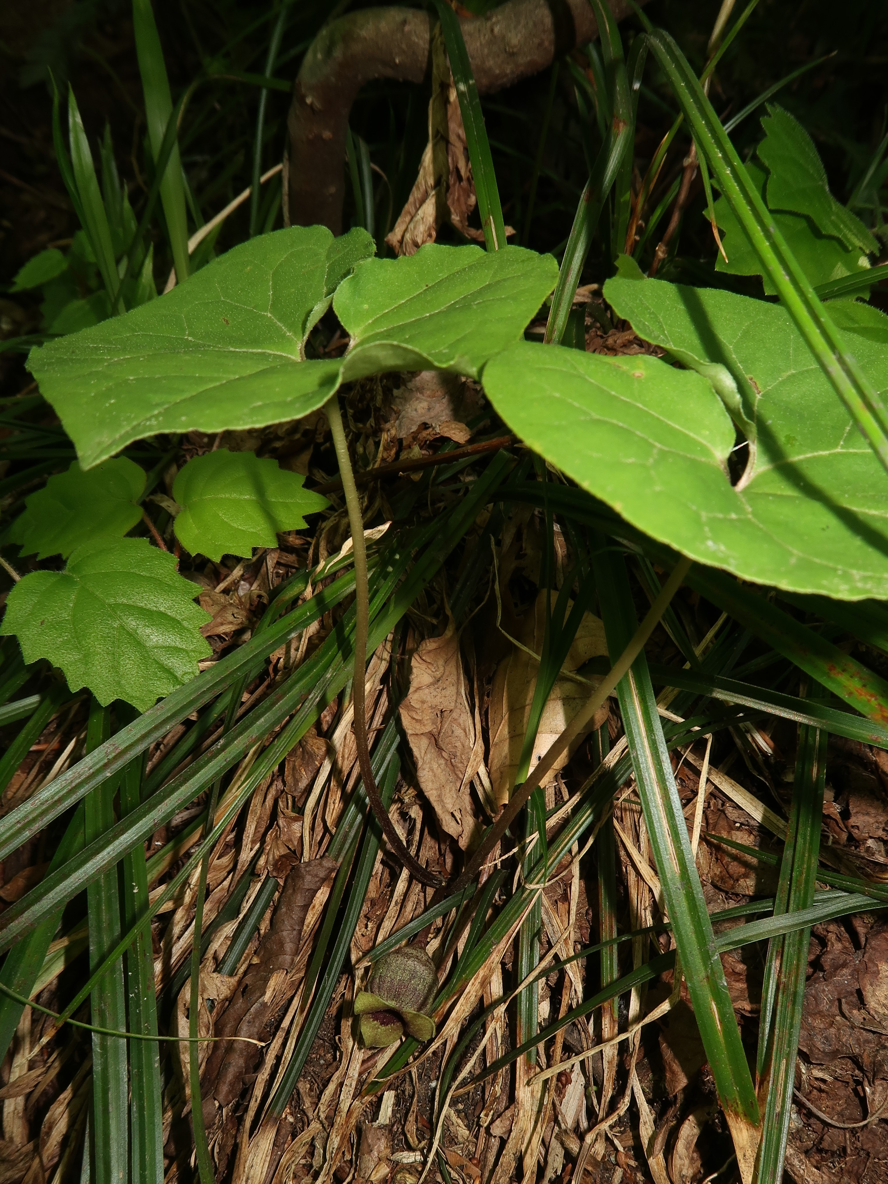 Asarum mikuniense, north area, Gunma pref., Japan